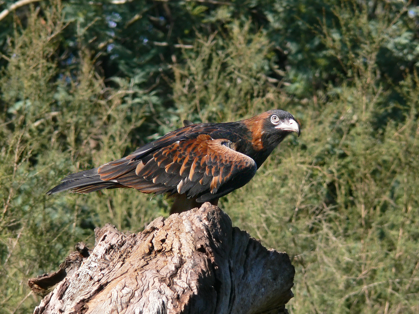 Black Breasted Buzzard (Hamirostra melanosternon)